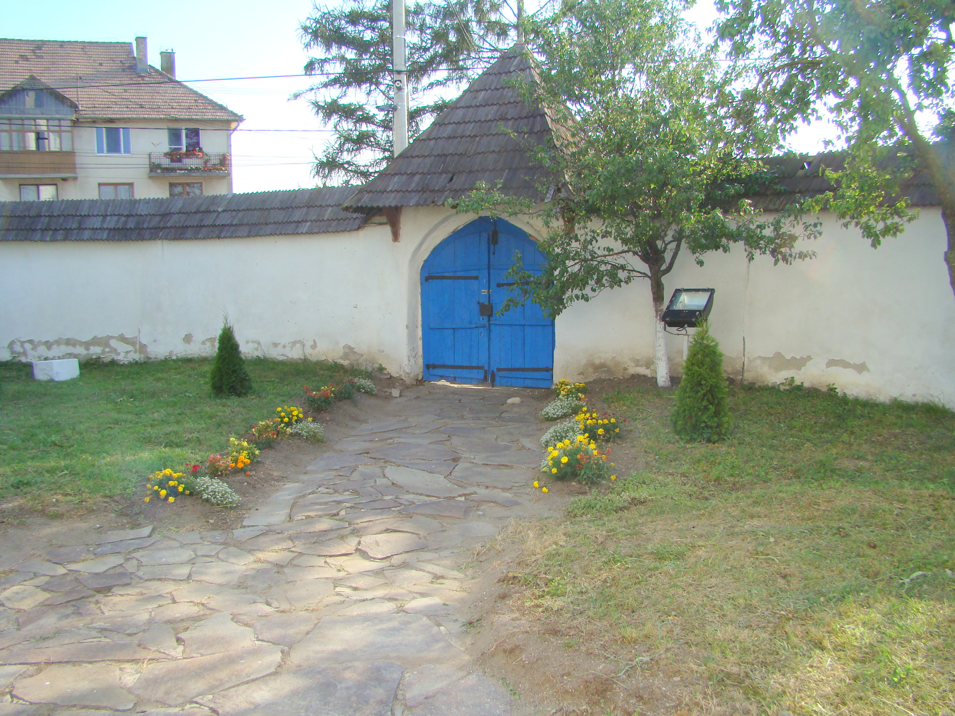 Reformed church in Feliceni, Harghita county, Romania